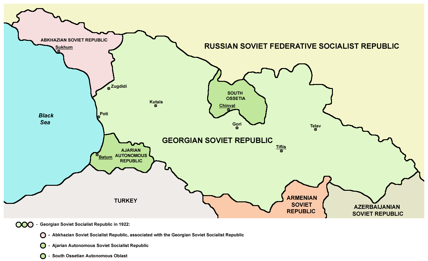 Georgian Soviet Socialist Republic in 1922, including Abkhazian Soviet Socialist Republic, Ajarian Autonomous Soviet Socialist Republic, and South Ossetian Autonomous Oblast.